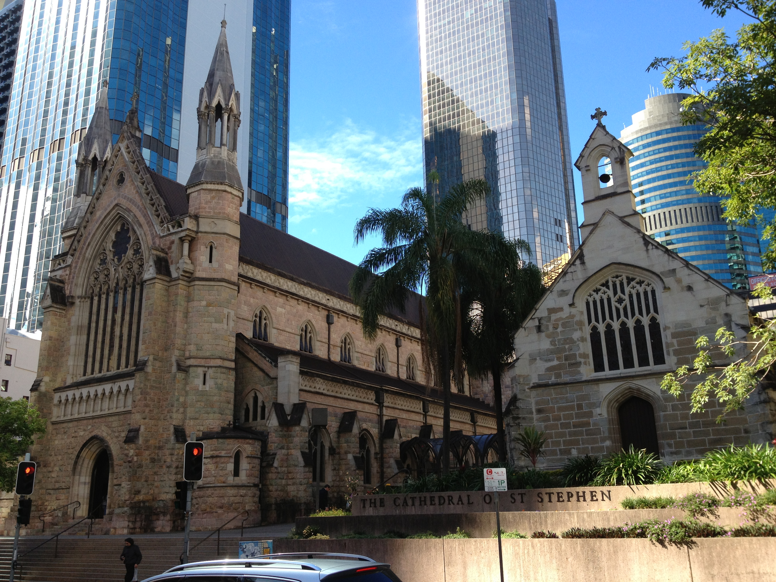 Cathedral of St Stephen, Brisbane